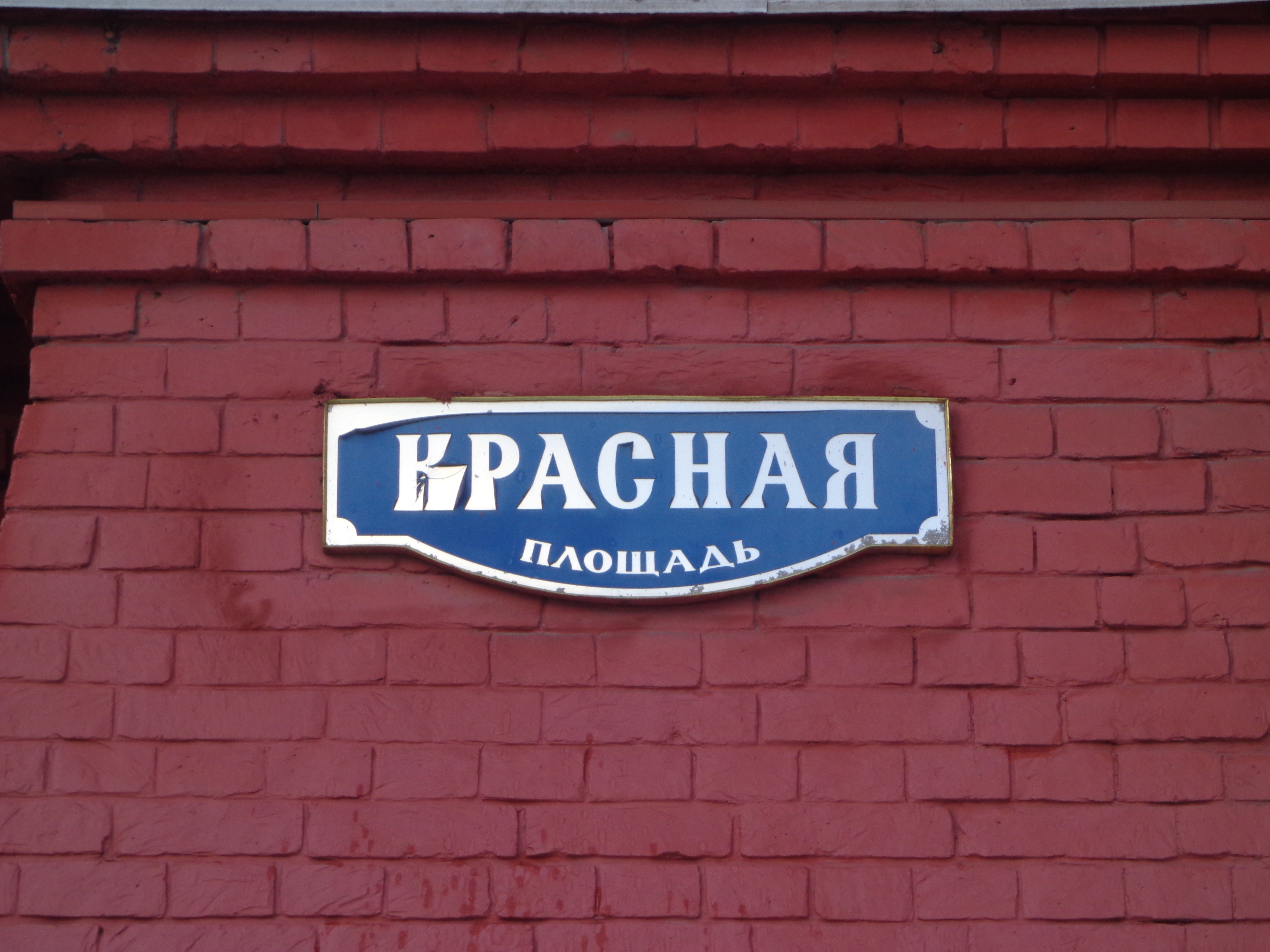 Red Square sign on southwest corner of the Moscow State Historical Museum, Moscow